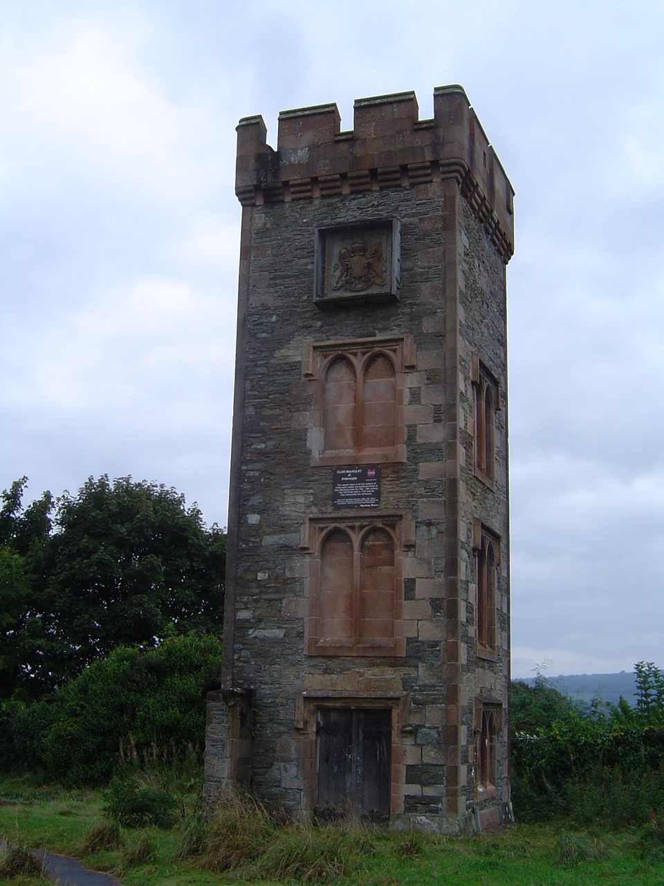 Ardencaple Castle - the remaining tower